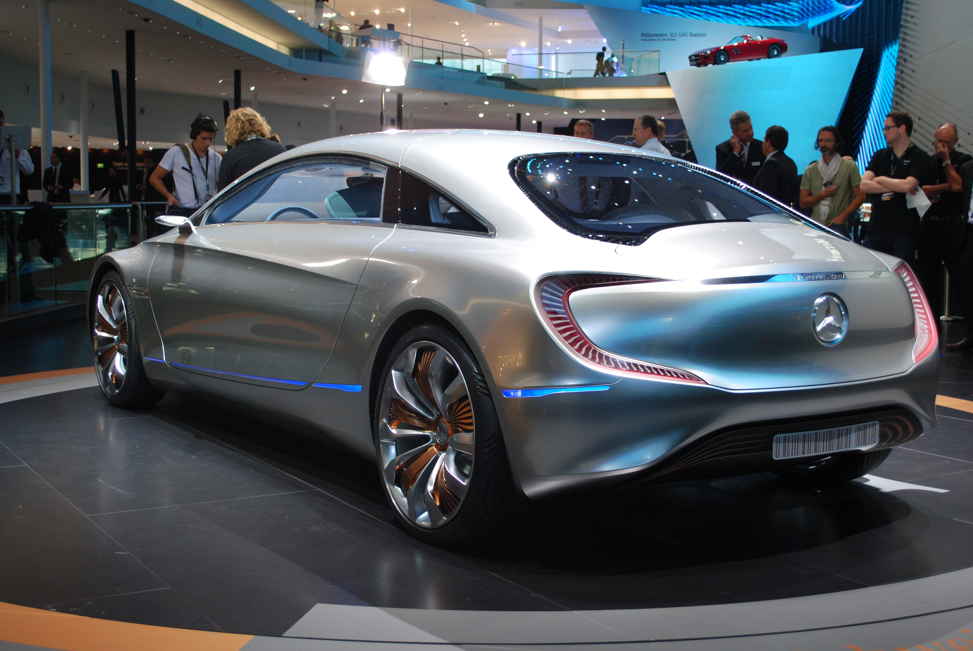 More photos and info